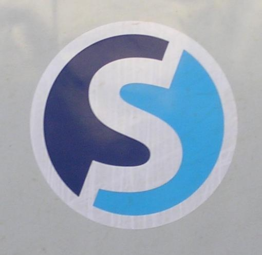 A symbol of suburban railroad system Esko on a train in Kralupy nad Vltavou, the Czech Republic.